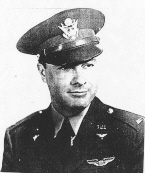 Horace S. Carswell Source: [1] Image taken while in US Army Air Corps Uniform during World War II as such this falls under the guidelines for Public Domain: PD US Army Air Corps... so unsure whether Army or Air Force now ALKIVAR™18px| 07:25, 19 October 2005 (UTC)